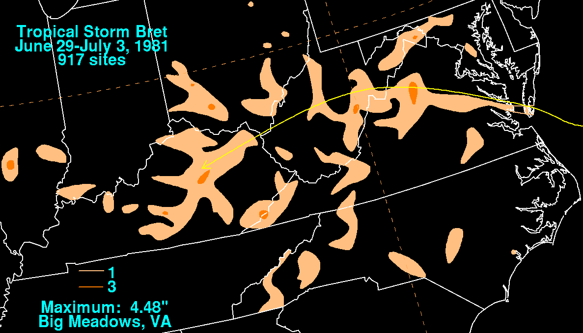 Storm total rainfall map of Tropical Storm Bret during June and July 1981.